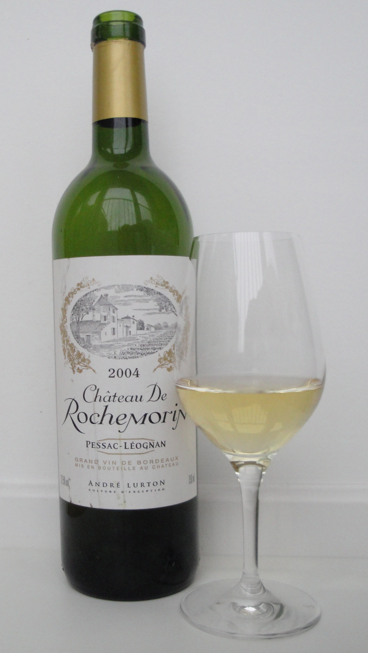 A 2004 Château de Rochemorin Blanc, a wine from Pessac-Léognan in the Graves subregion of Bordeaux. It is one of André Lurton's wine estates.